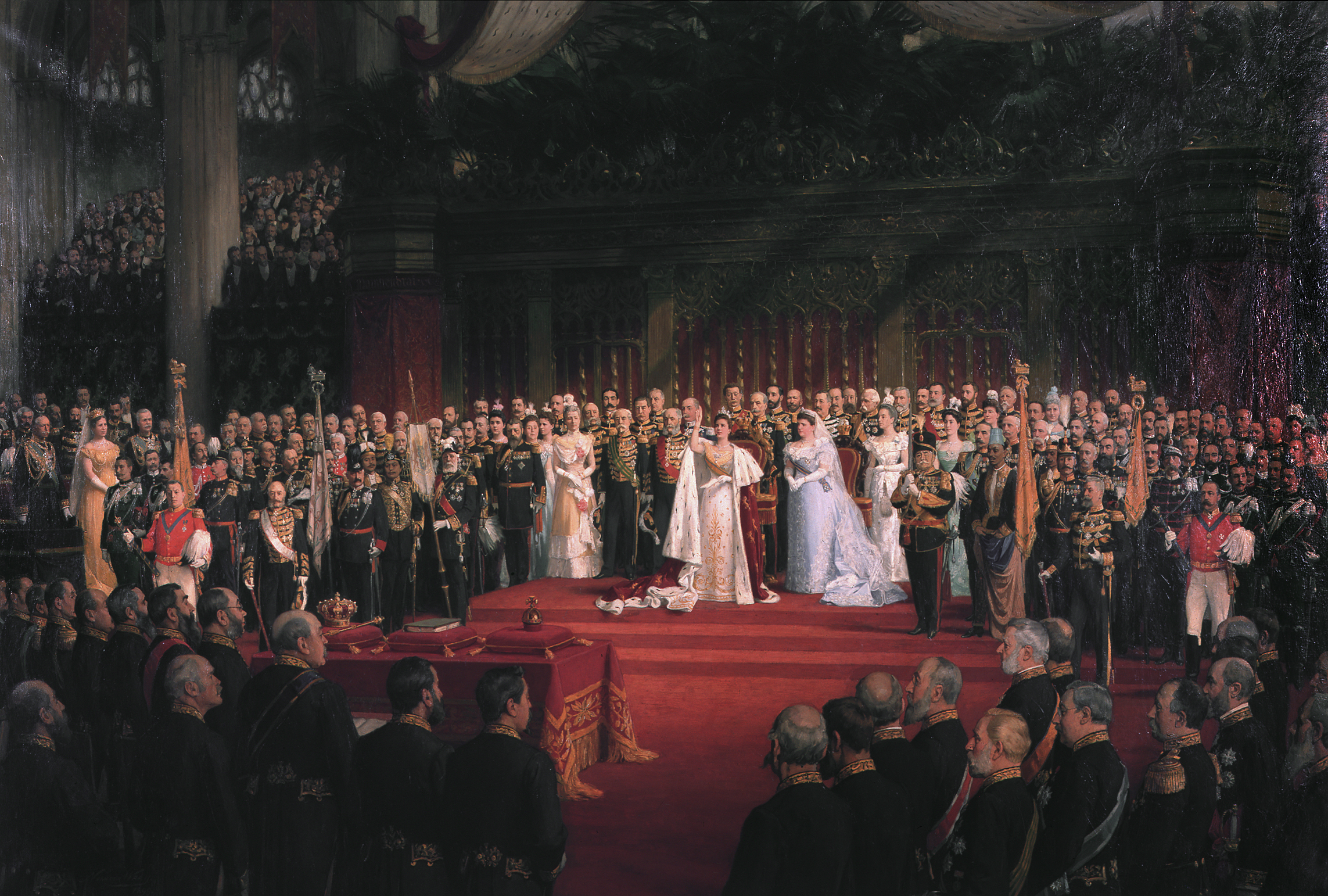 The inauguration of Queen Wilhelmina on 6 September 1898 in the Nieuwe Kerk in Amsterdam oil on canvas 200 x 300 cm signed in an unknown place 1898 - 1899